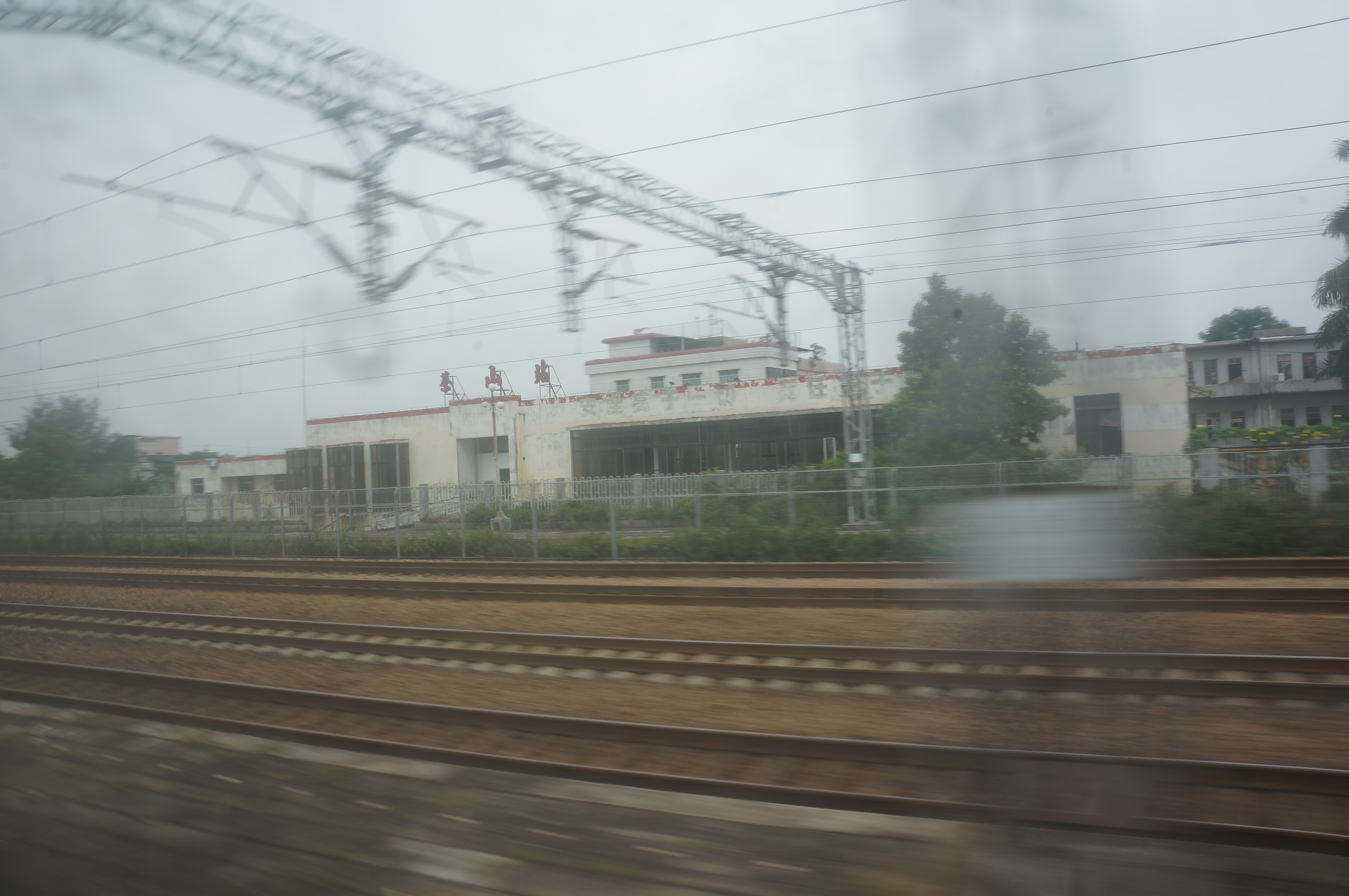 201609 Z817 passes Chashan Station